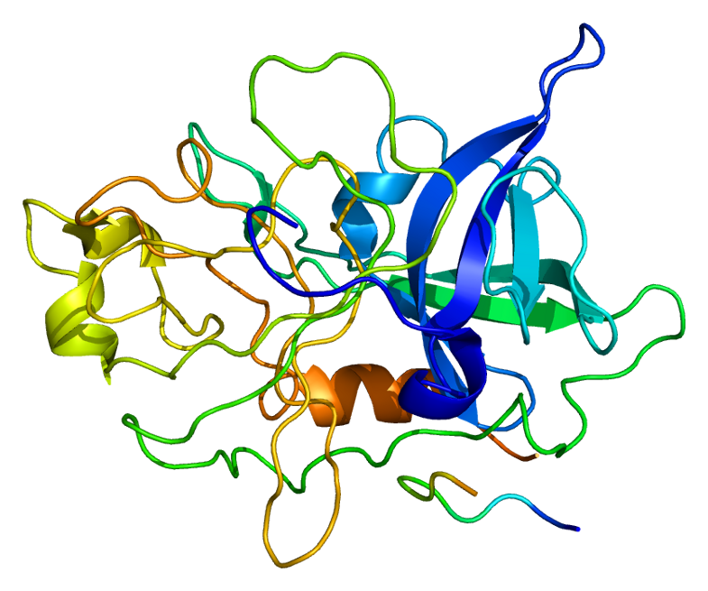 Structure of the PLAU protein. Based on PyMOL rendering of PDB 1c5w.